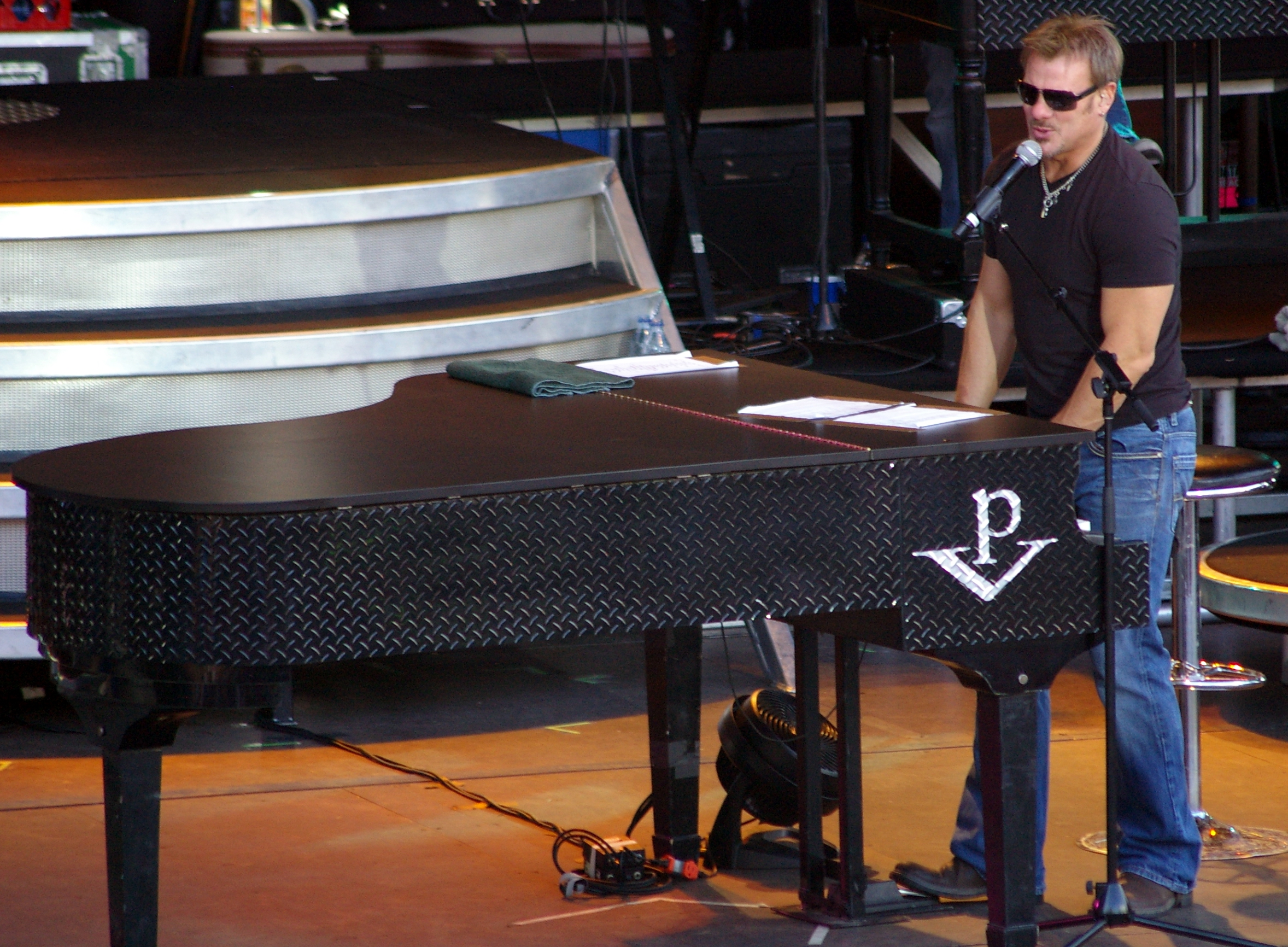 Country music artist Phil Vassar performing at the 2008 Durham Fair in Durham, Connecticut on September 28, 2008.